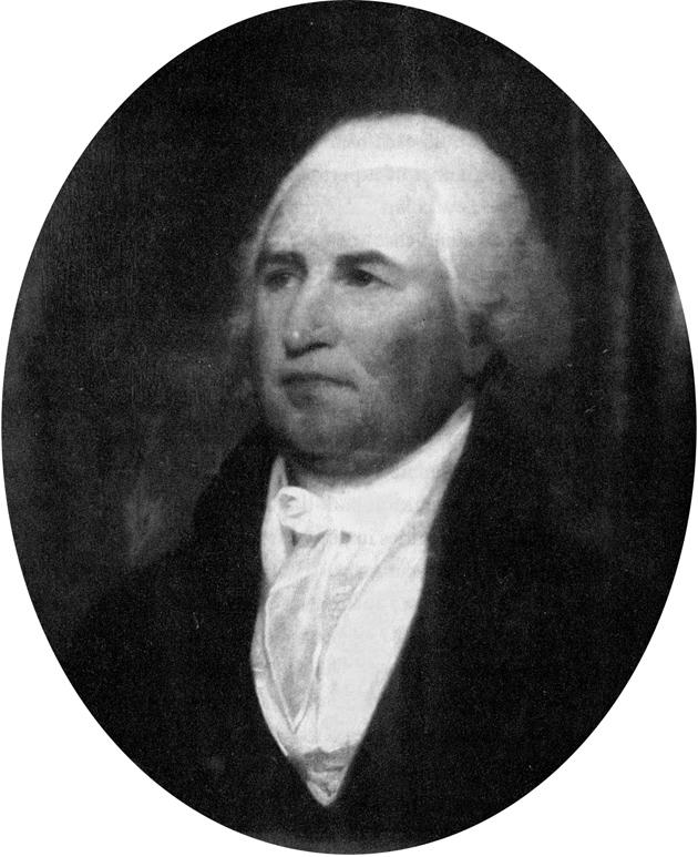 Cropped B&W copy of portrait of Edward Bancroft (1745-1821), scientist, author, and spy, in the collection of the Royal Society.